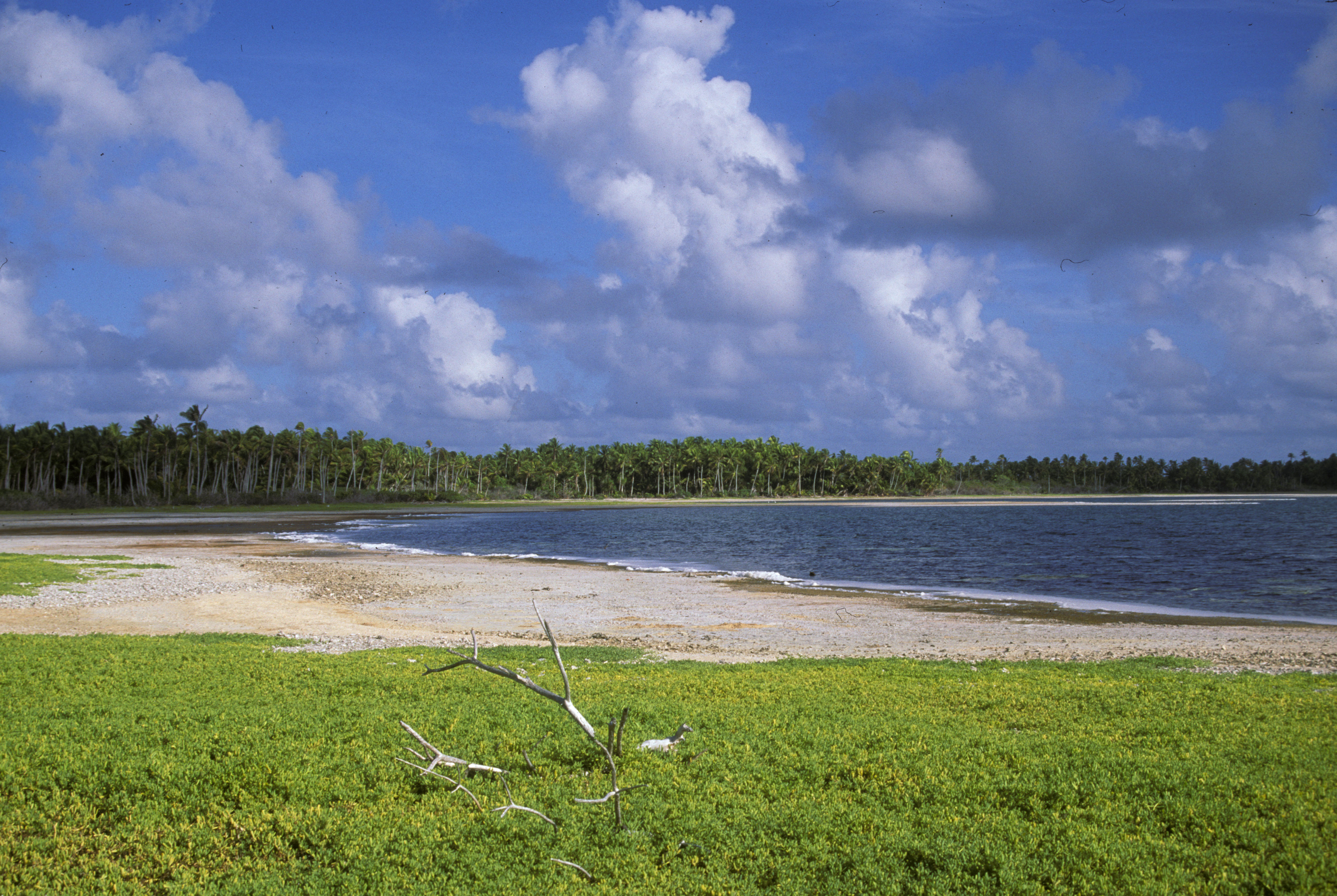 View across salty lagoon on Manra (formerly Sydney) Island, Phoenix Islands, Kiribati. Original field notes:Interior lagoon is partly filled in as part of the original atoll's evolution.